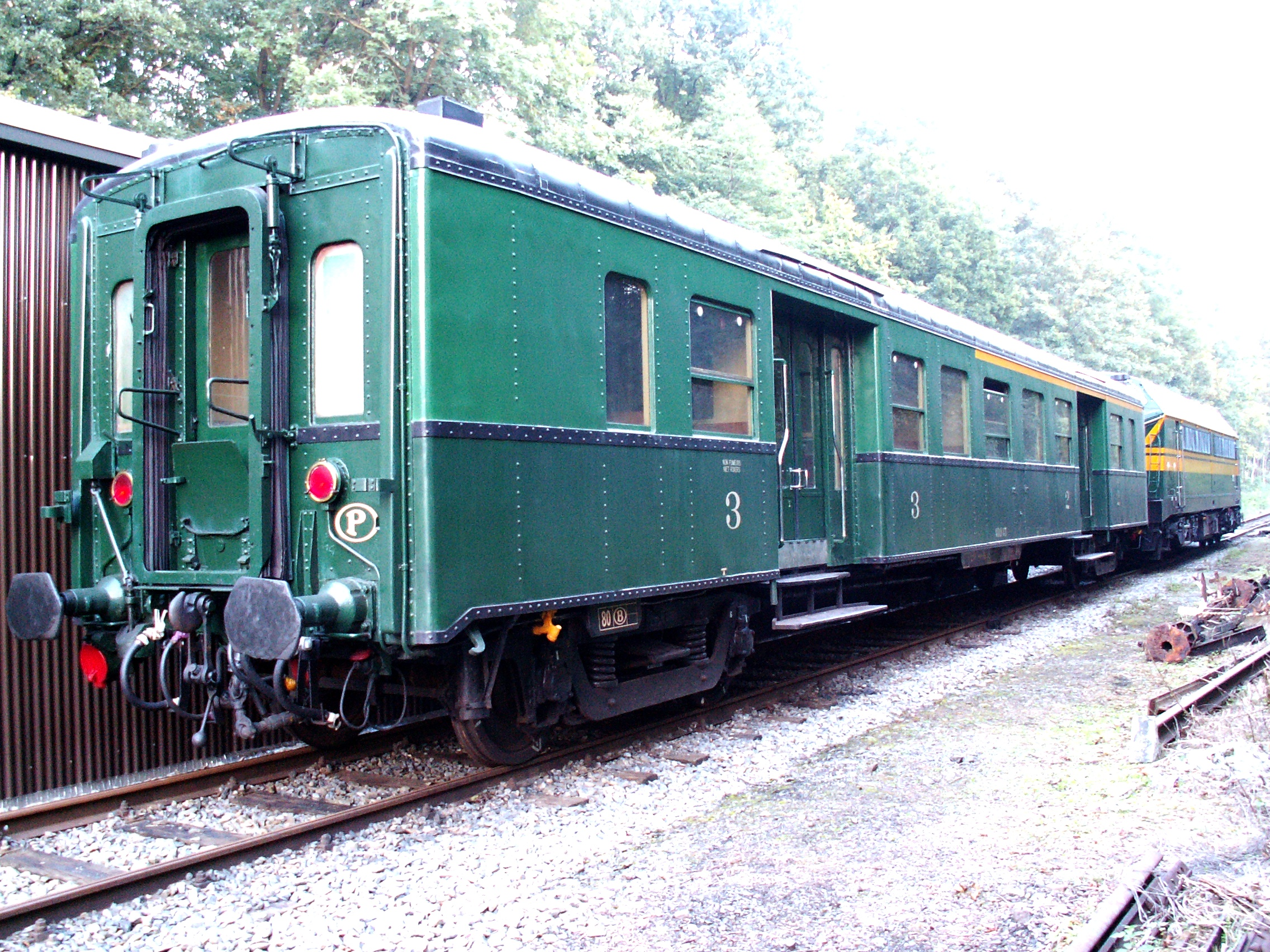 Belgian M1 (metallic, first series) rail car from PFT , seen at Spontin station on the Bocq heritage railway, hauled by diesel loc 5183.